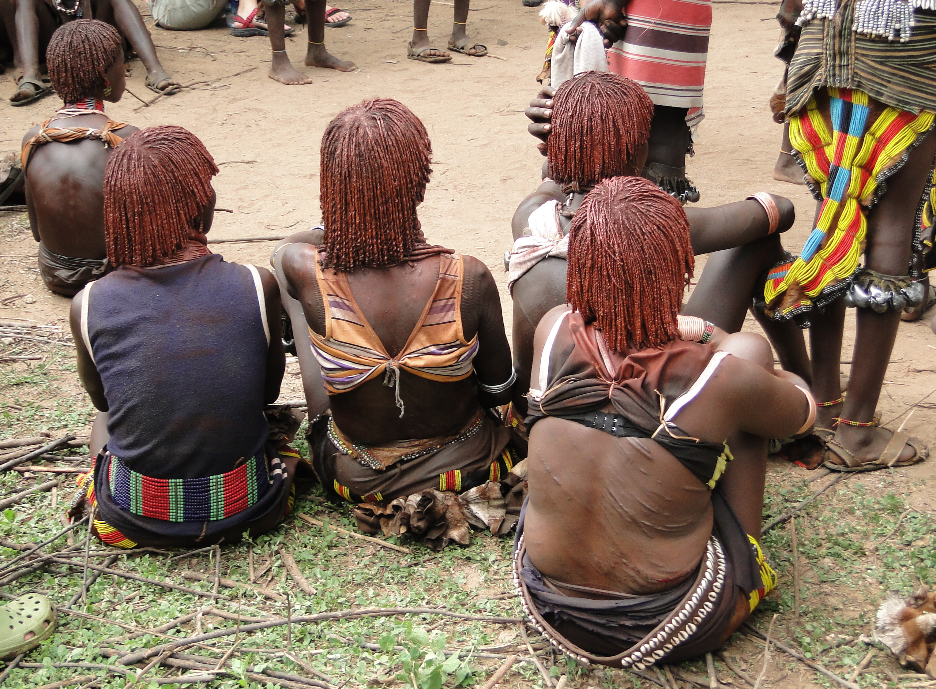 Hamar women in Turmi, Ethiopia